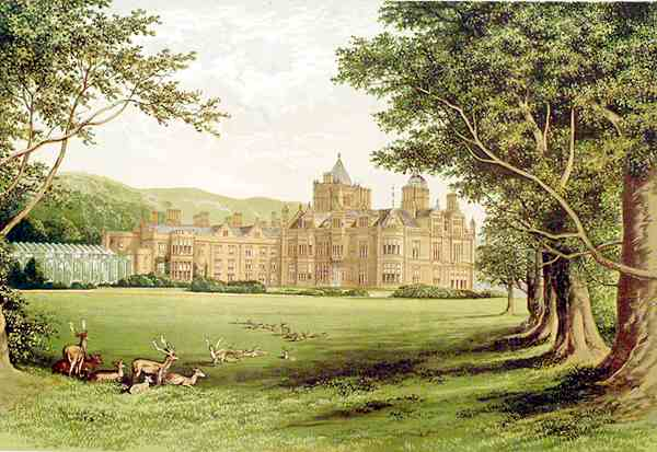 Holker Hall from The County Seats of the Noblemen and Gentlemen of Great Britain and Ireland by James Morris (1880). The recently rebuilt West Wing is on the right.